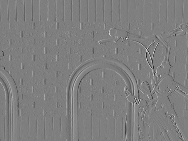 Grayscale image of a brick wall & bike rack